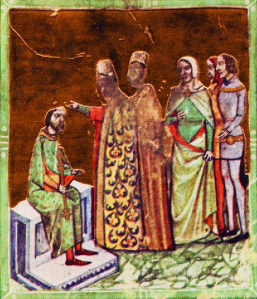 Coronation of Andrew II of Hungary; anachronistic depictions of Andrew's children: St. Elizabeth, dukes Béla and Coloman